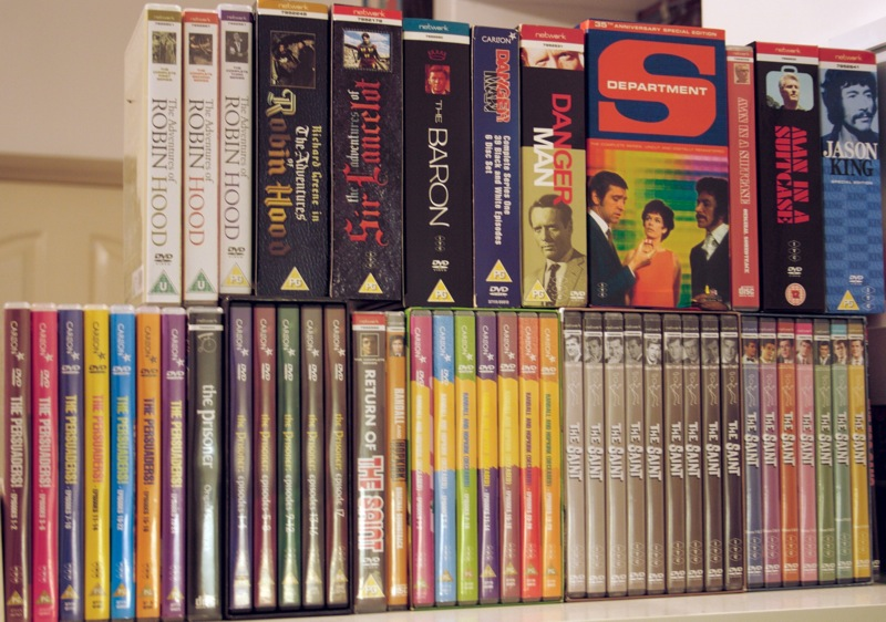 A selection of DVD releases of the ITC Entertainment back catalogue, from a variety of publishers: Granada/Carlton, Umbrella and Network DVD.